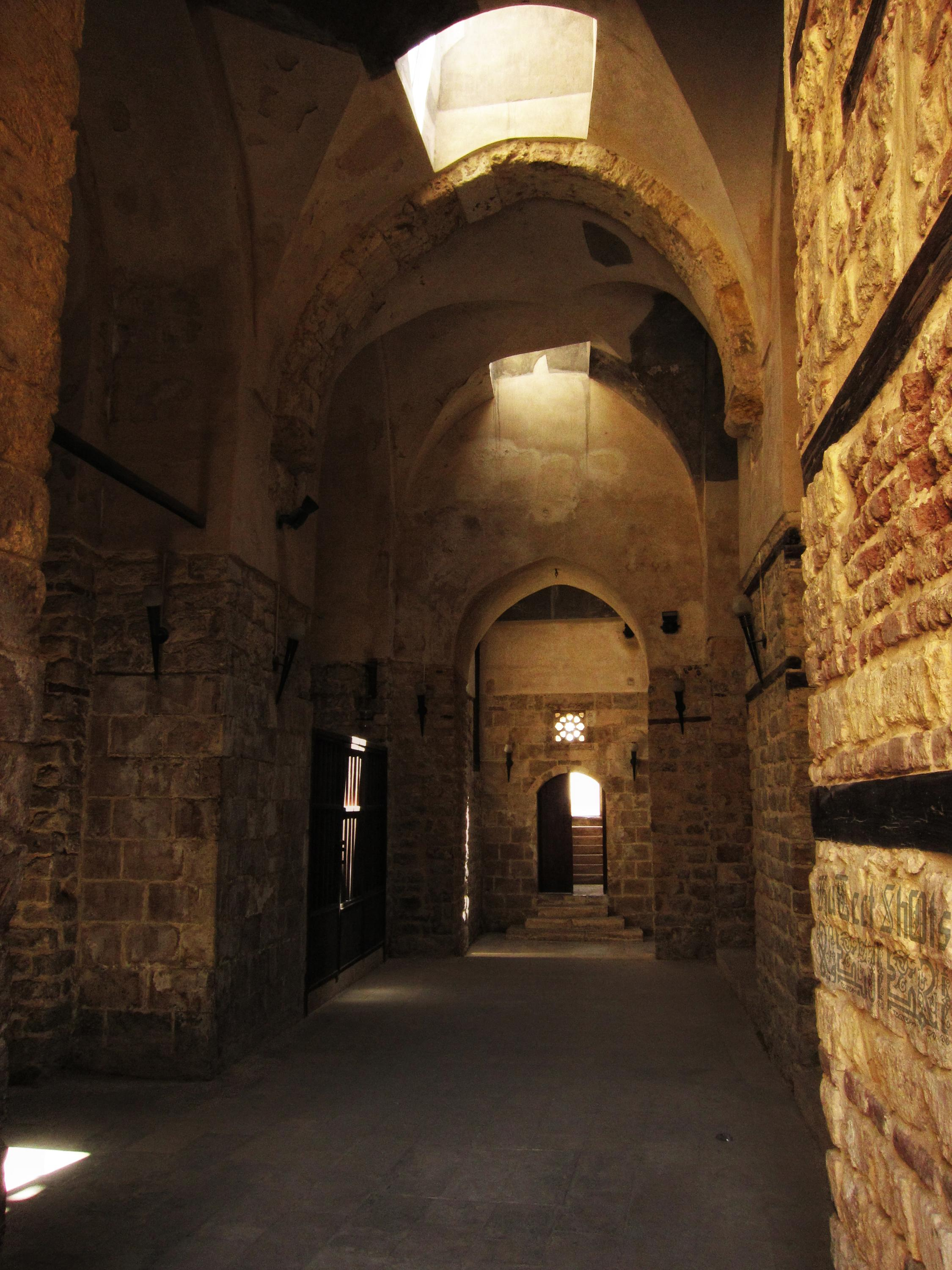 The complex of Sultan Qalawun was built for the sultan by Amir 'Alam al-Din Sanjar al-Shuja'i in 1284-5 and consisted of the founder's mausoleum, madrasa, and a maristan (hospital). The complex was located on al-Mu'izz Street. The mausoleum's central, domed plan is connected to the madrasa by a long entrance passage, and the plan of both spaces is shifted to accommodate the qibla orientation. Source